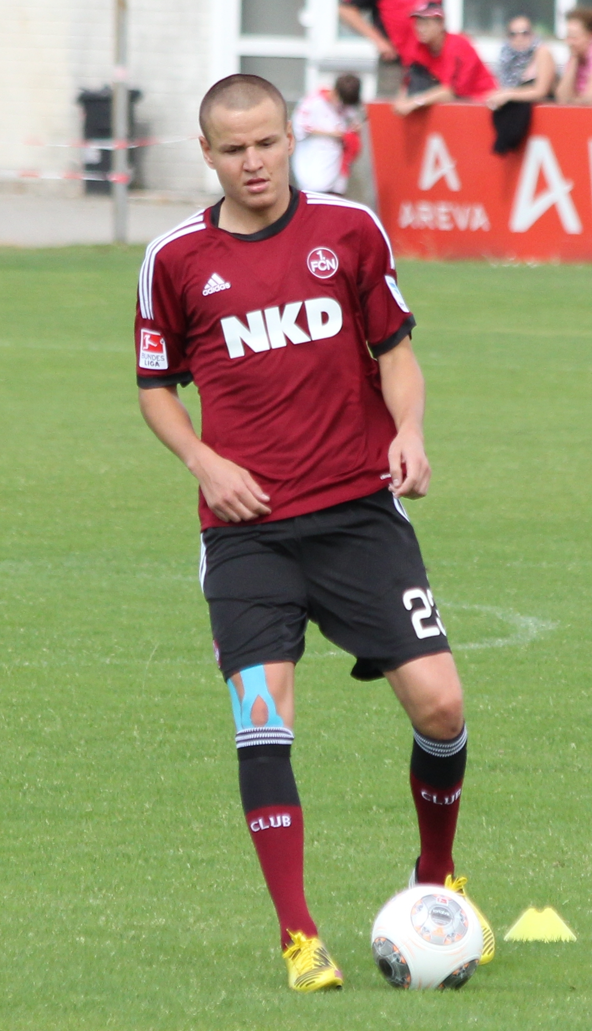 Adam Hloušek, football player for German side 1. FC Nürnberg, 2013/14 season, Trainingsauftakt